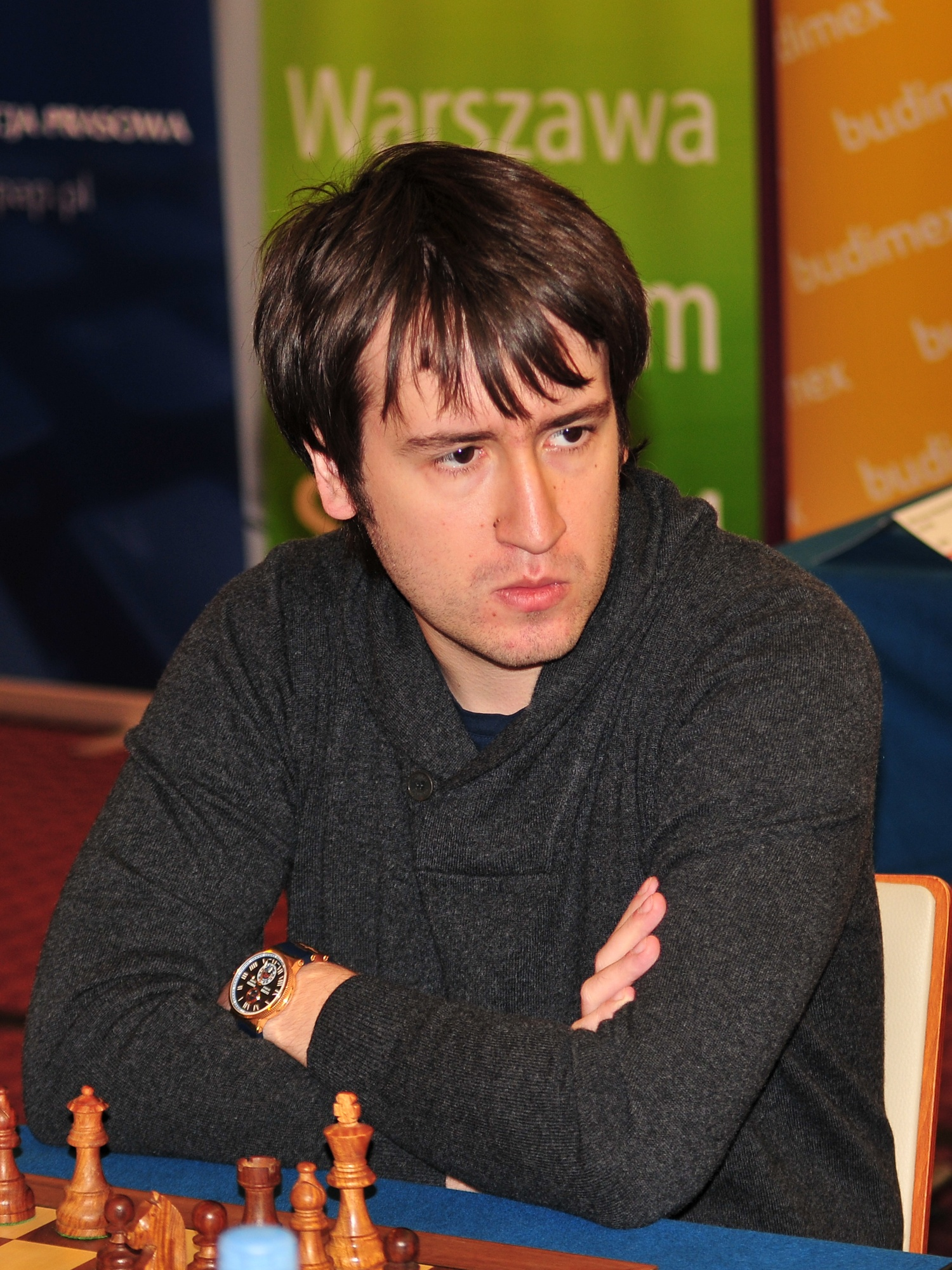 GM Teimour Radjabov, European Chess Team Championship Warsaw 2013